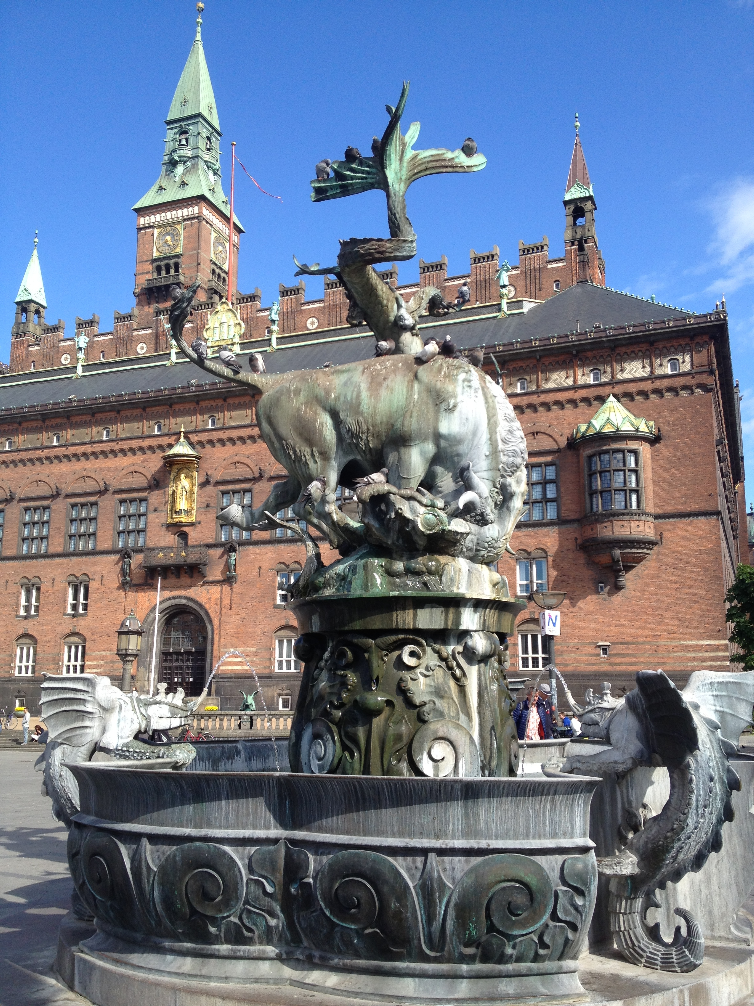 The Dragon Fountain on City Hall Square in Copenhagen, Denmark